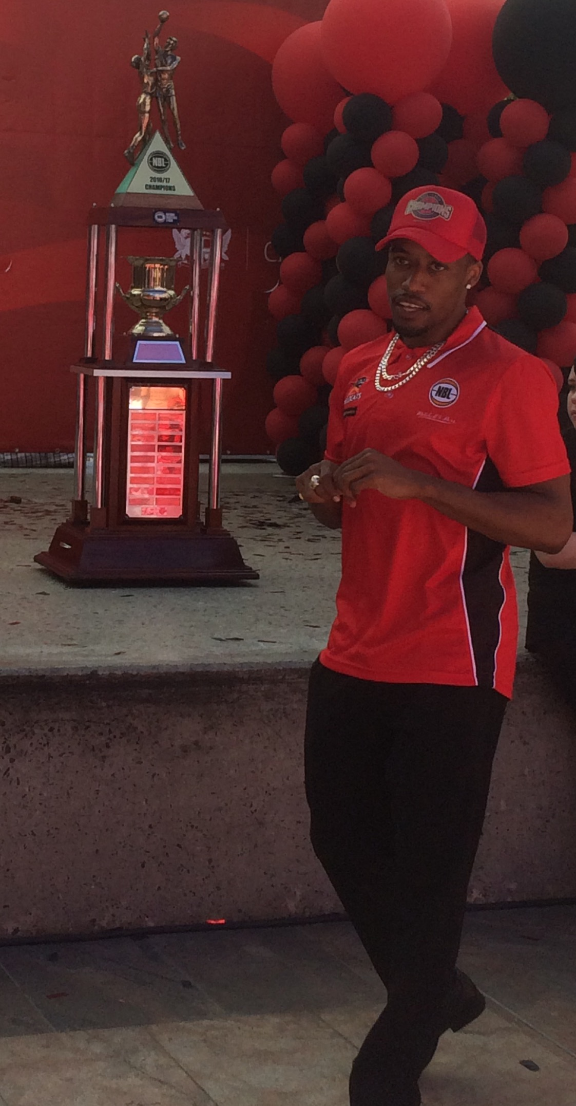 Bryce Cotton at the Perth Wildcats' 2017 championship celebration